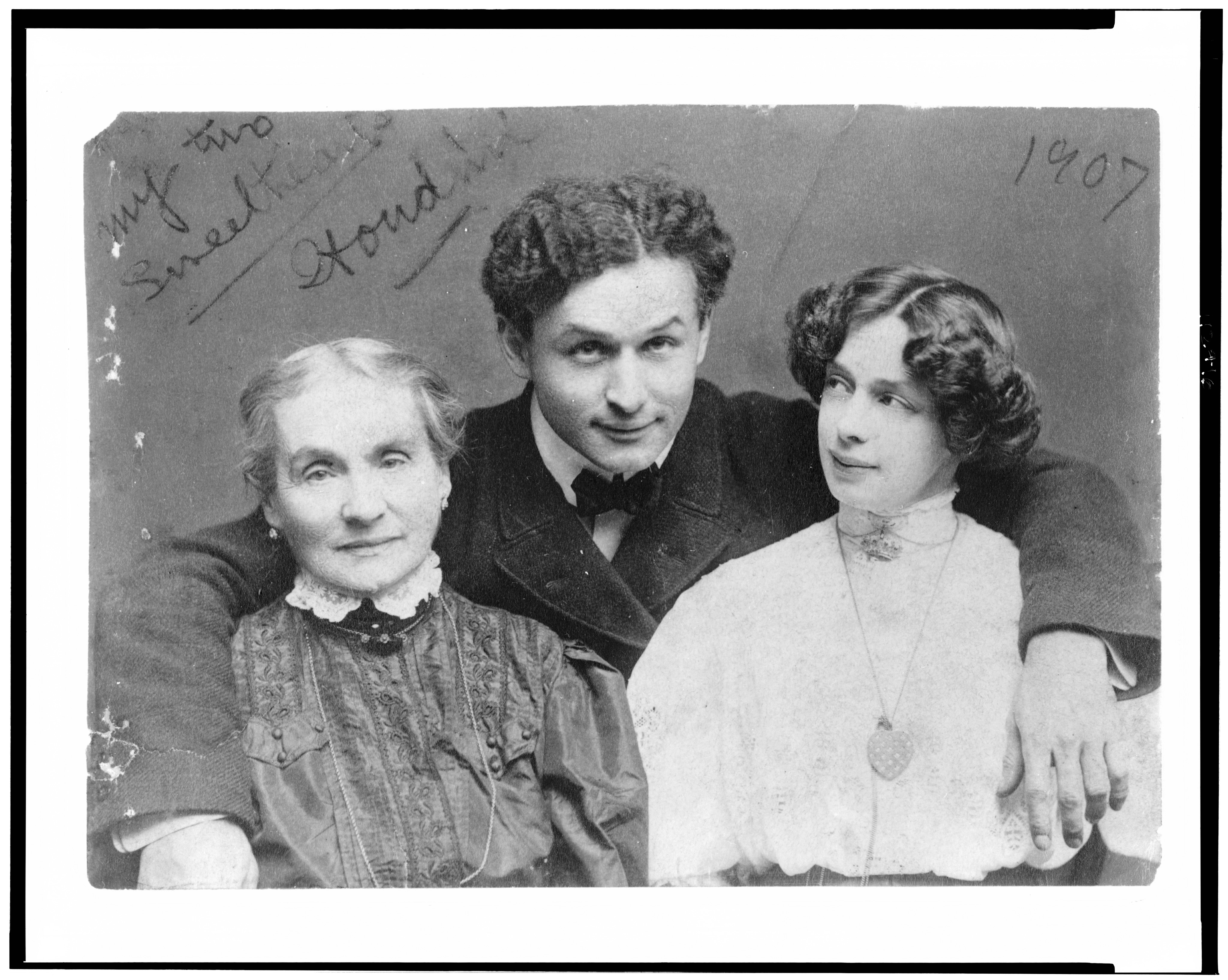 "My Two Sweethearts". Harry Houdini (1874-1926) with his wife Beatrice (1876-1943) and mother Cecilia Steiner Weiss, half-length portrait